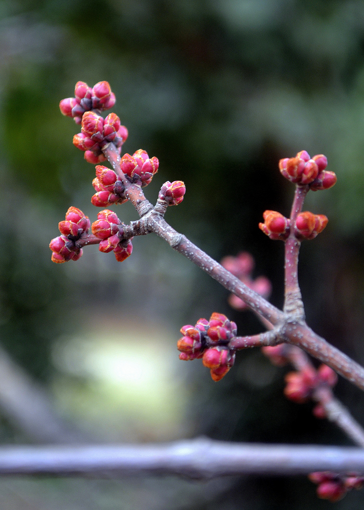 Closeup showing detail of Acer rubrum buds